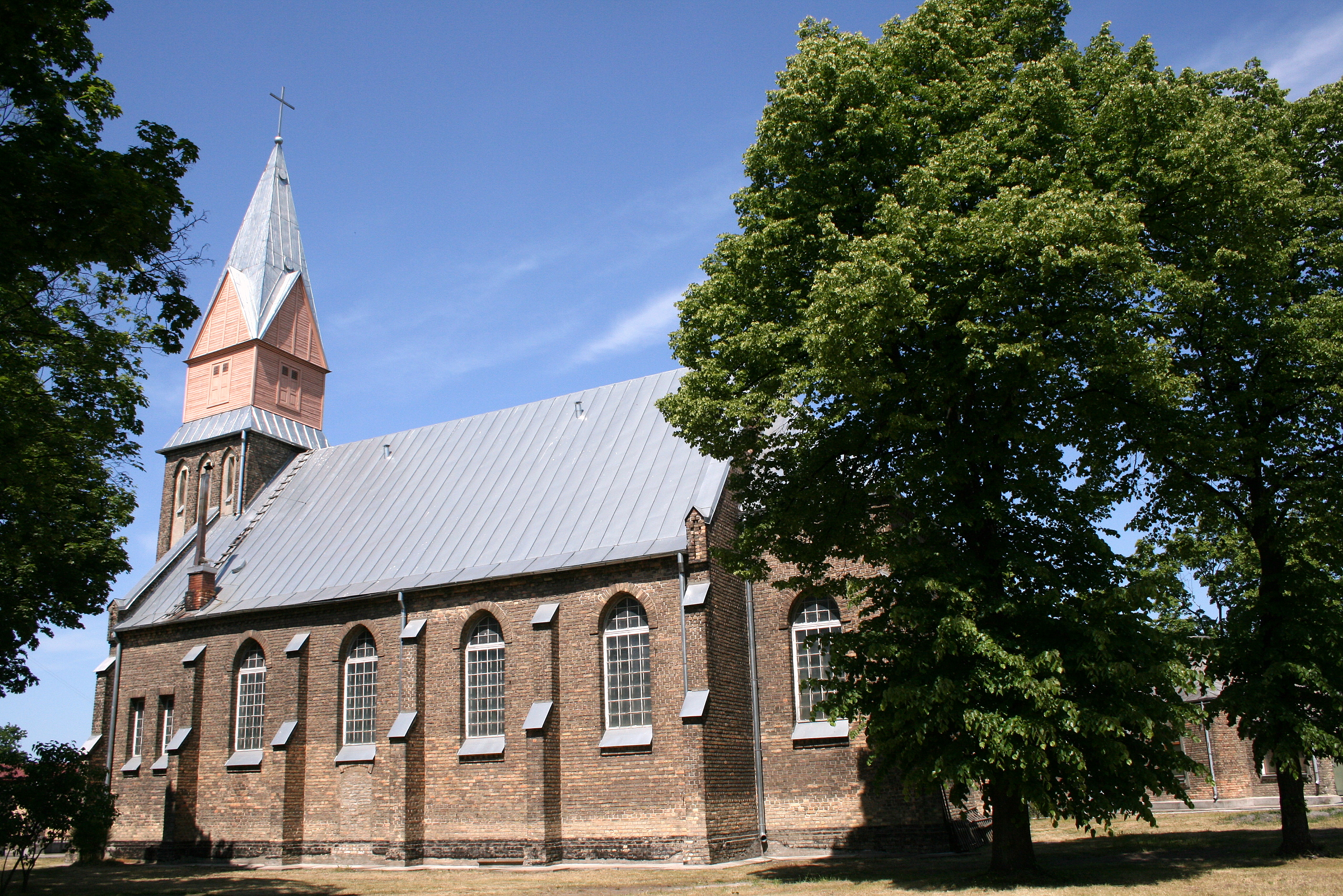 Assumption of the Most Holy Virgin Mary Roman Catholic Church in Bolderāja, RigaLatviešu: Bolderājas Vissvētākās Jaunavas Marijas Debesīs uzņemšanas Romas katoļu baznīca